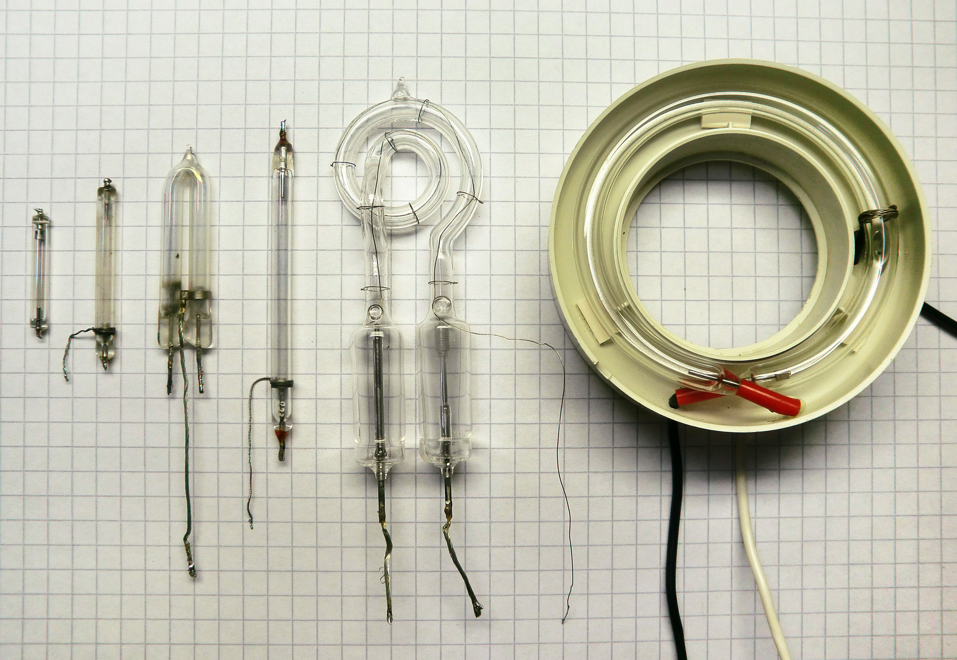 Diffenret styles of flash tubes